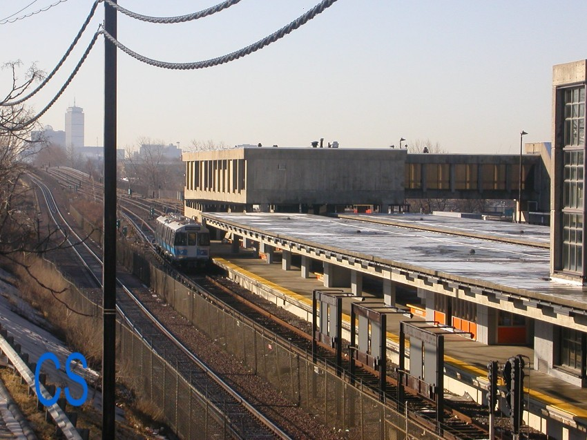 Two of the first 0700 series Blue Line cars sit on the third Orange Line track next to Wellington station in March 2007. The third track, built in the 1970s for express service that never materialized because the Haymarket North Extension was cut back from Reading to Oak Grove, was used as a test track to evaluate the 0700 series cars before they were moved to the Blue Line.